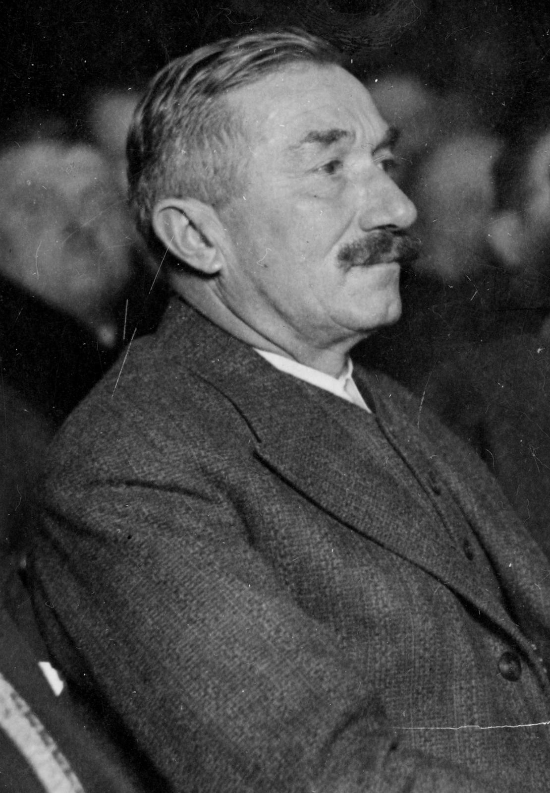 Wincenty Witos